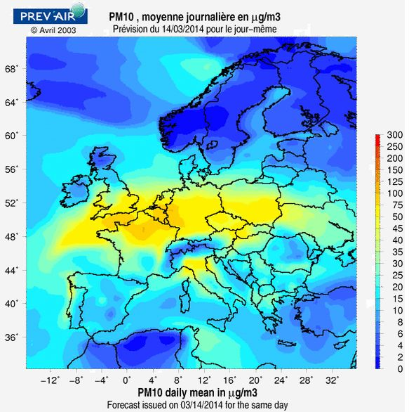 PM 10 particulate matter on the European map on 14 March 2014, courtesy of PREV'AIR.